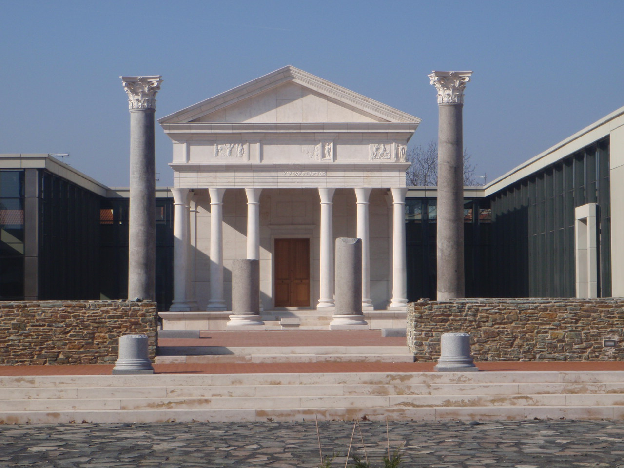 Temple of ISIS (Savaria) Szombathely, Hungary